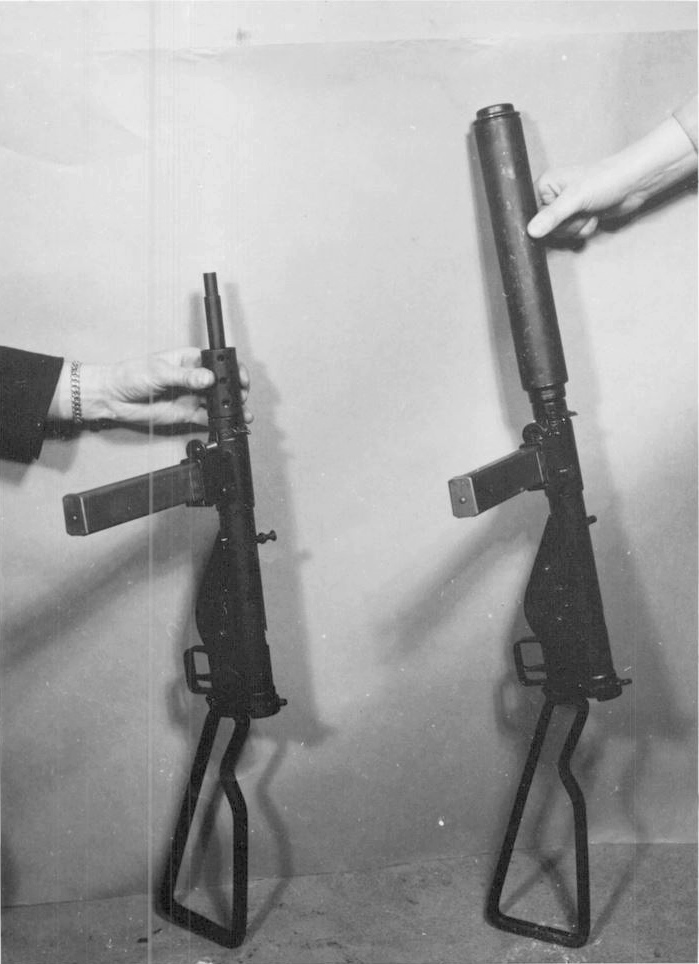 A sub-machine gun with silencer, used by Norwegian Saboteurs.